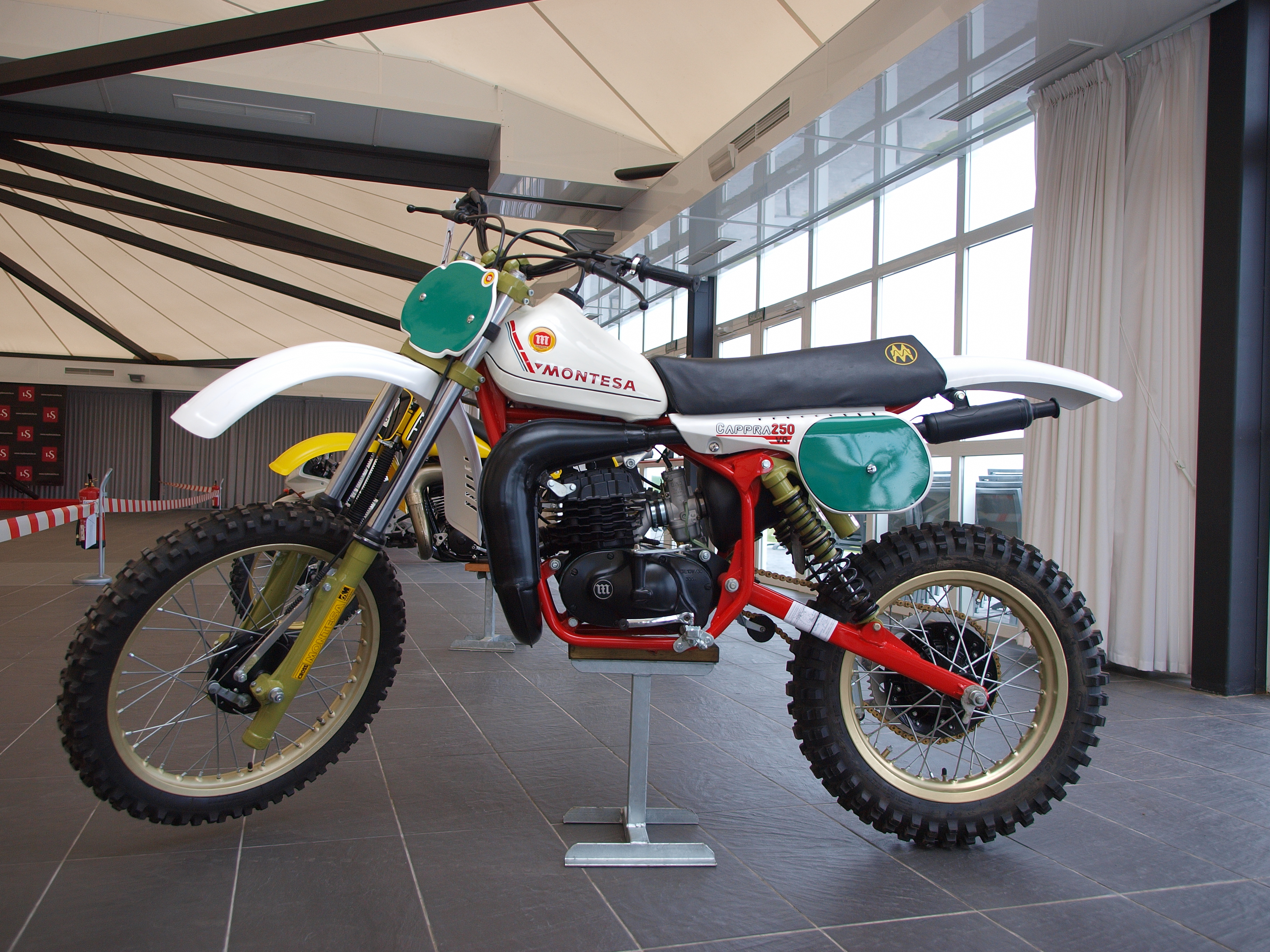 Montesa Cappra 250cc at exhibition in Zamora (Spain, 2012)